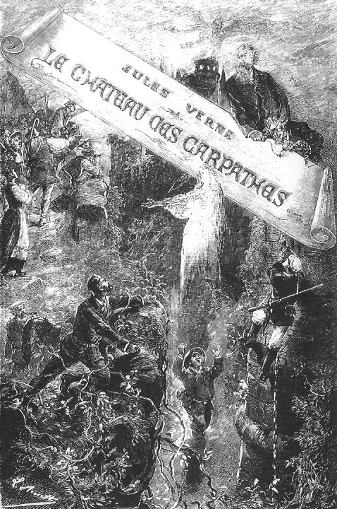 An illustration from Jules Verne's novel "The Carpathian Castle" (also published as "The Castle of the Carpathians", "The Castle in Transylvania", and "Rodolphe de Gortz; or the Castle of the Carpathians").